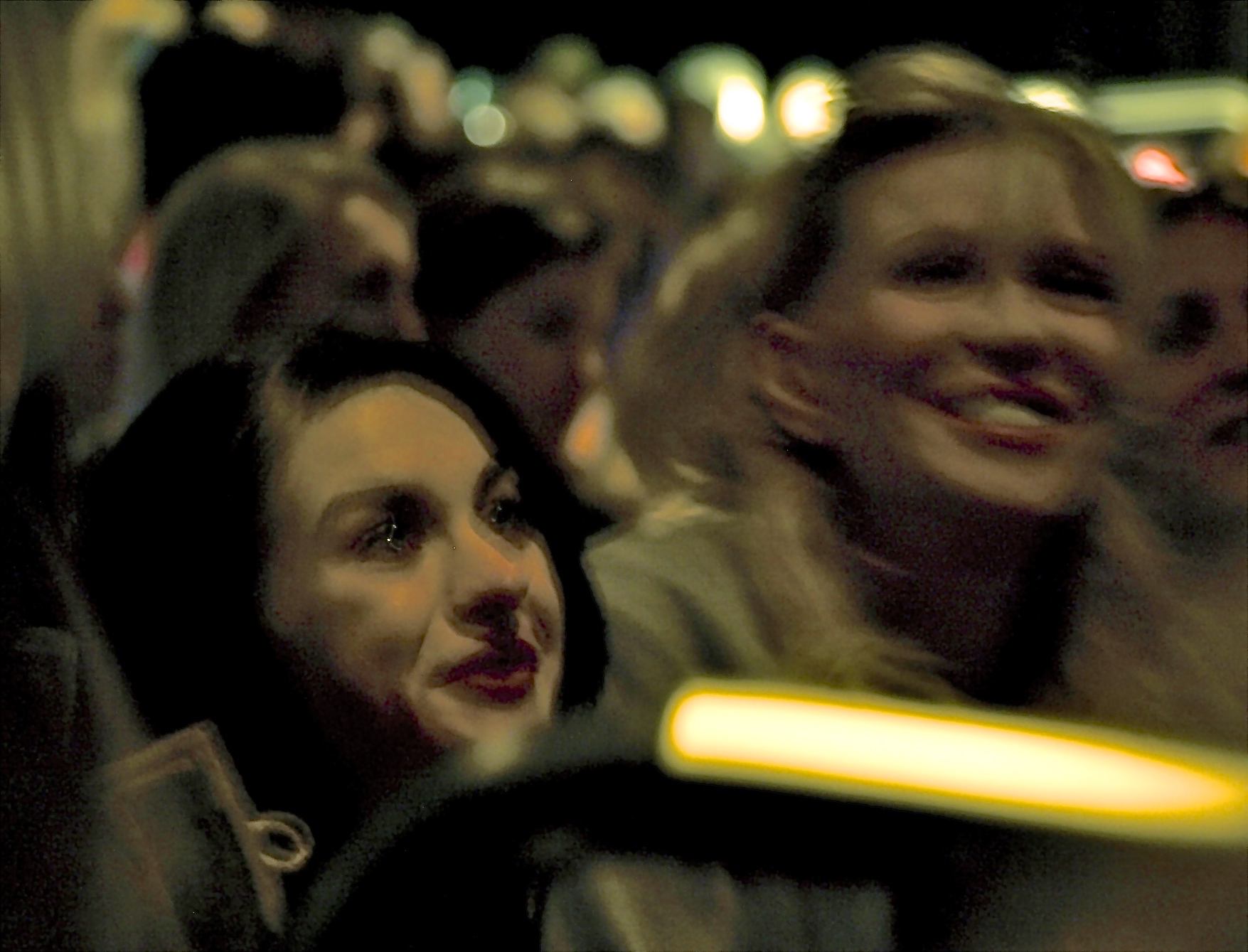 Courtney Love and Frances Bean Cobain at the 2015 premiere of Montage of Heck